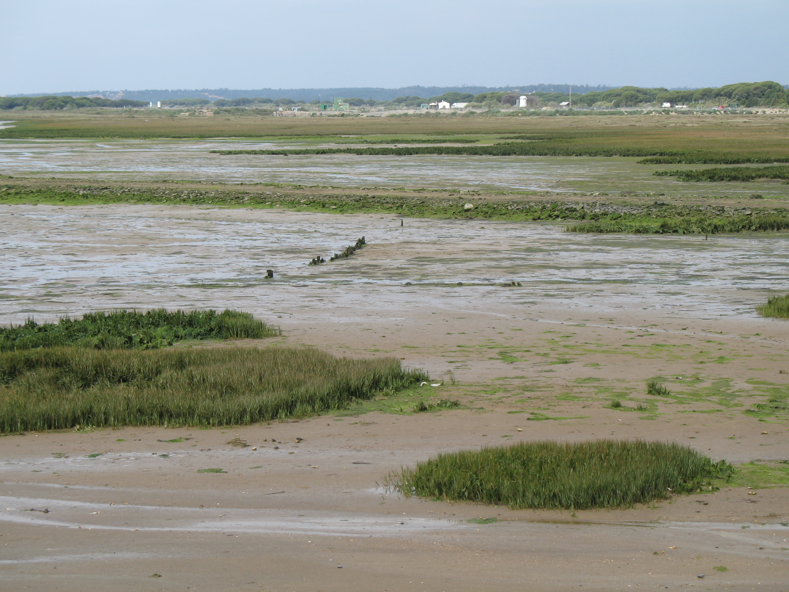 El Rompido (Province of Huelva, Spain): salt marshes of the Río Piedras at low tide